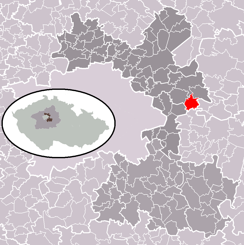 Location of Vyšehořovice municipality within Prague-East District and administrative area of Brandýs nad Labem-Stará Boleslav as a Municipality with Extended Competence.